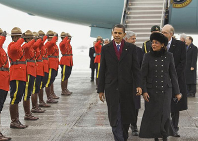 President Obama and Governor General Michaëlle Jean